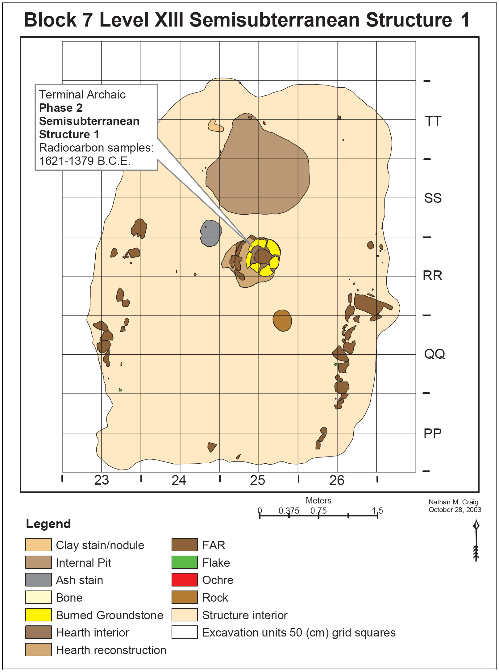 Craig 2005 Figure 11.39 Page: 628. Source: Craig, N. (2005) The Formation of Early Settled Villages and the Emergence of Leadership: A Test of Three Theoretical Models in the Rio Ilave, Lake Titicaca Basin, Southern Peru., Santa Barbara: University of California at Santa Barbara